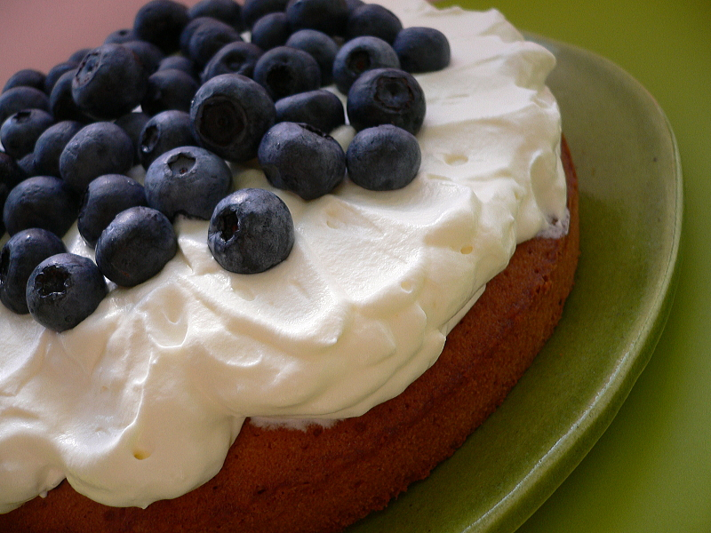 Quatre-quarts with whipped crème fraîche and blueberries.